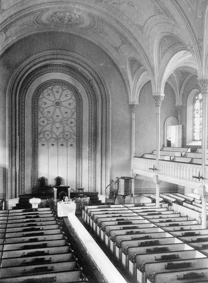 Historic American Buildings Survey (HABS) photo of interior of First Church in Albany, NY, USA